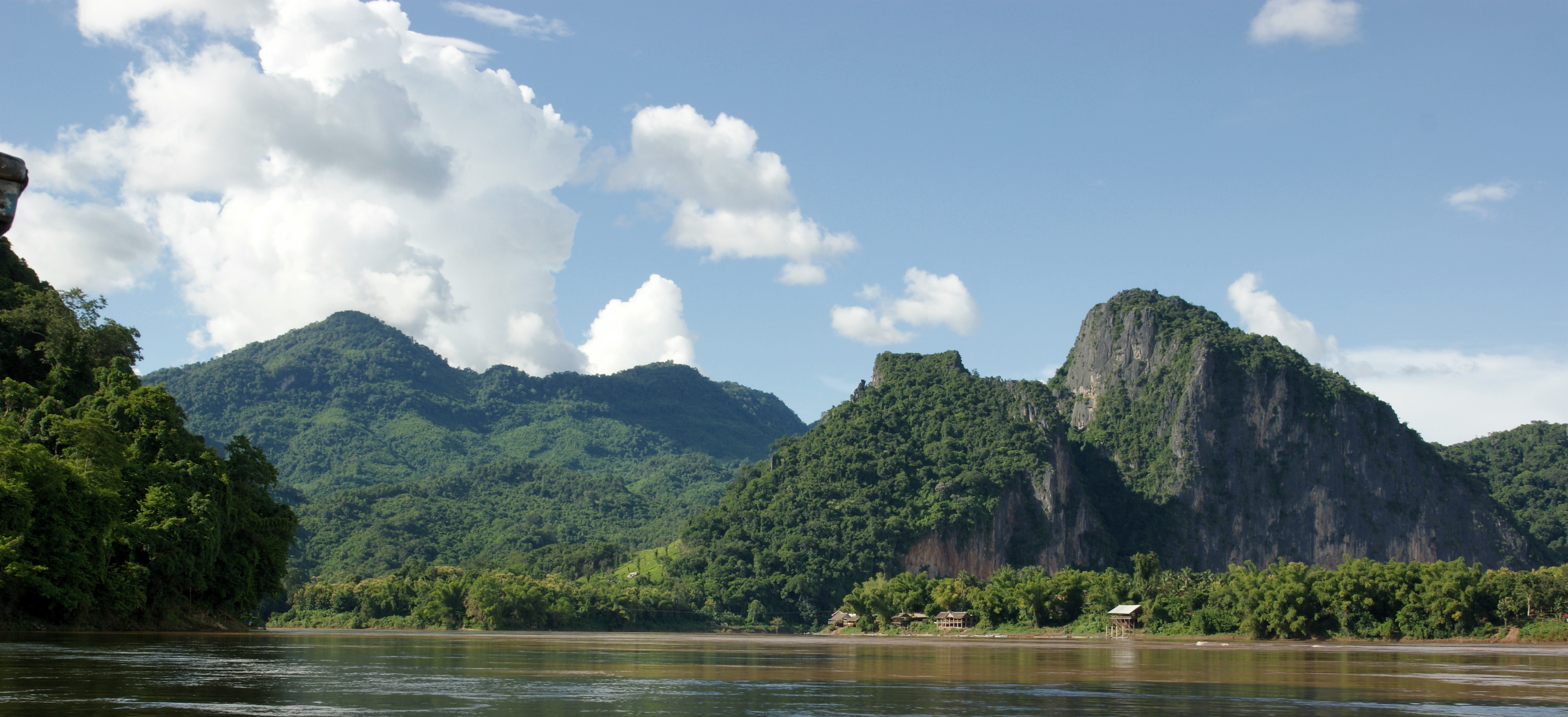 A view of the Mekong River at Luang Prabang in Laos. (late August 2009)